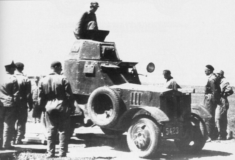 The prototype of armoured car wz.34 (nr. 5423) during trials.